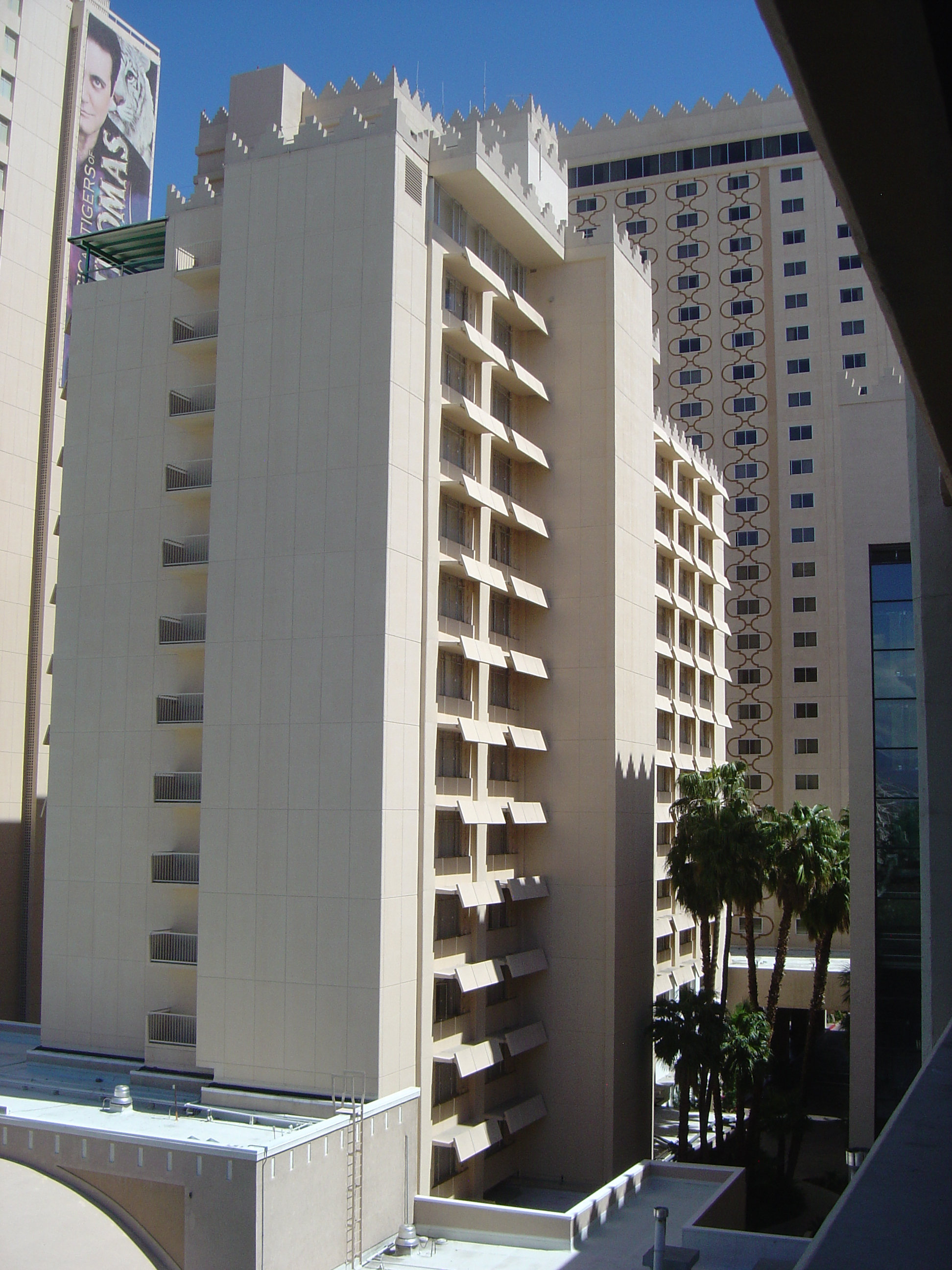 Tunis Tower at the Sahara hotel-casino in Las Vegas.